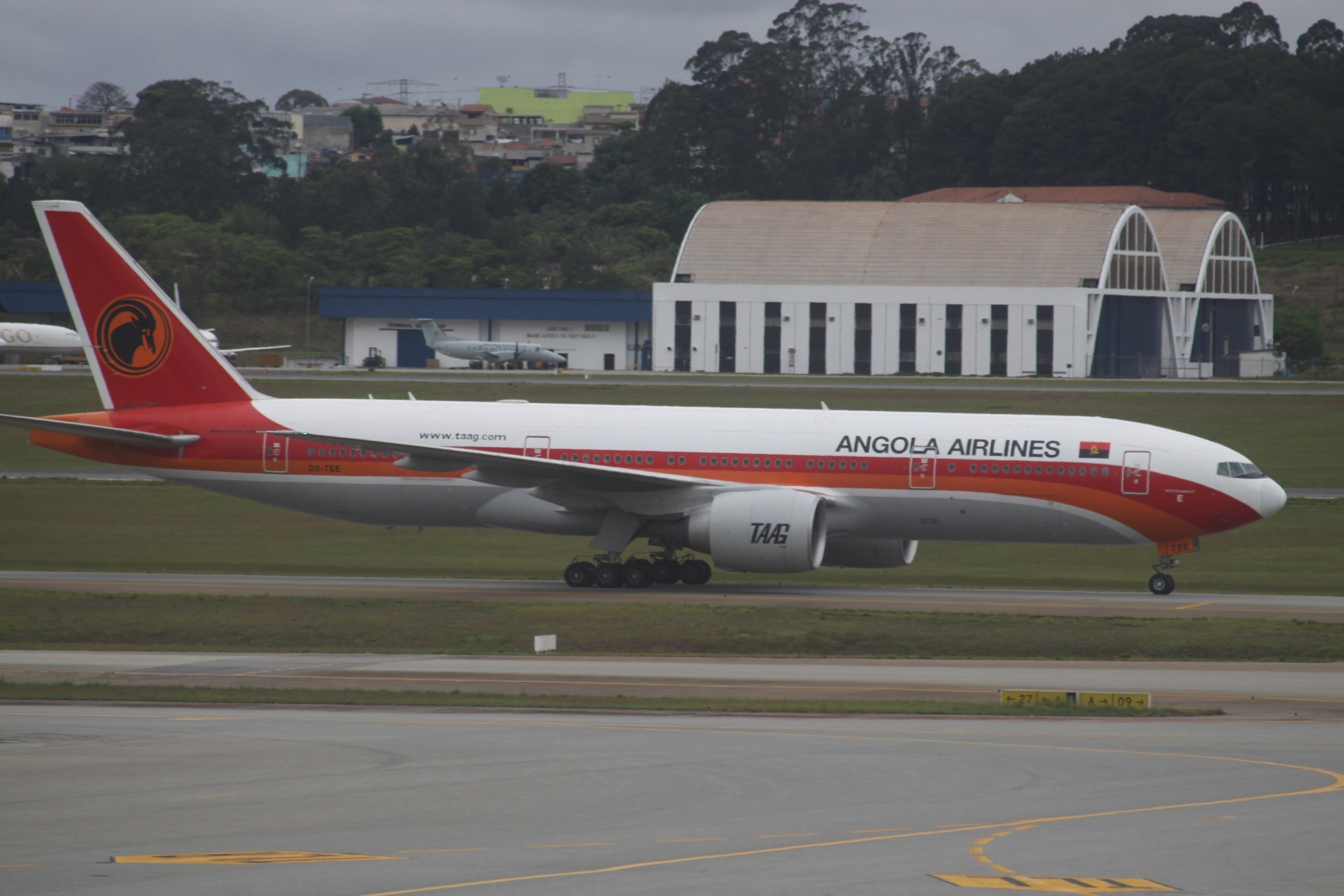 At Sao Paulo Guarulhos